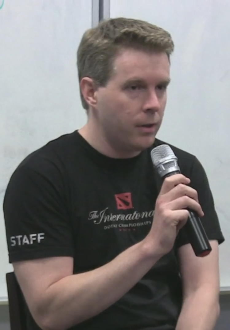 Robin Walker at the Pick Your Platform, Game Startup 101 panel in Seattle in August 2013.